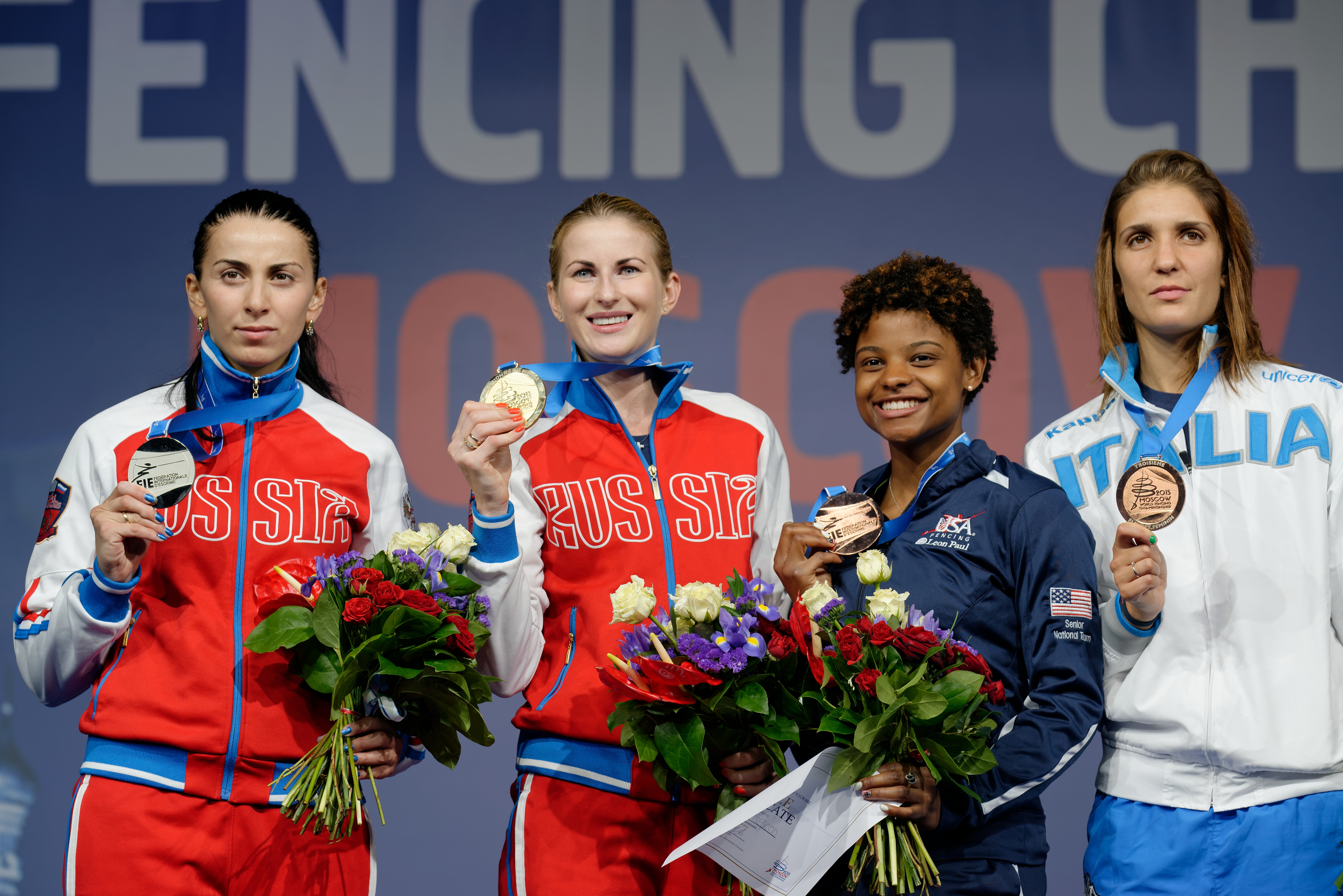 Podium of the women's foil event (from left to right, Aida Shanayeva, Inna Deriglazova, Nzingha Prescod, Arianna Errigo) at the 2015 World Fencing Championships on 16 July 2014 at the Olympic Stadium in Moscow.